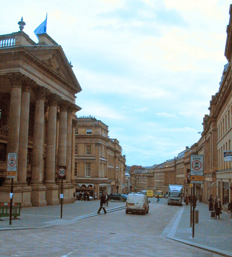 Grey Street, Newcastle upon Tyne. Image lightened and adjusted by DWaterson.